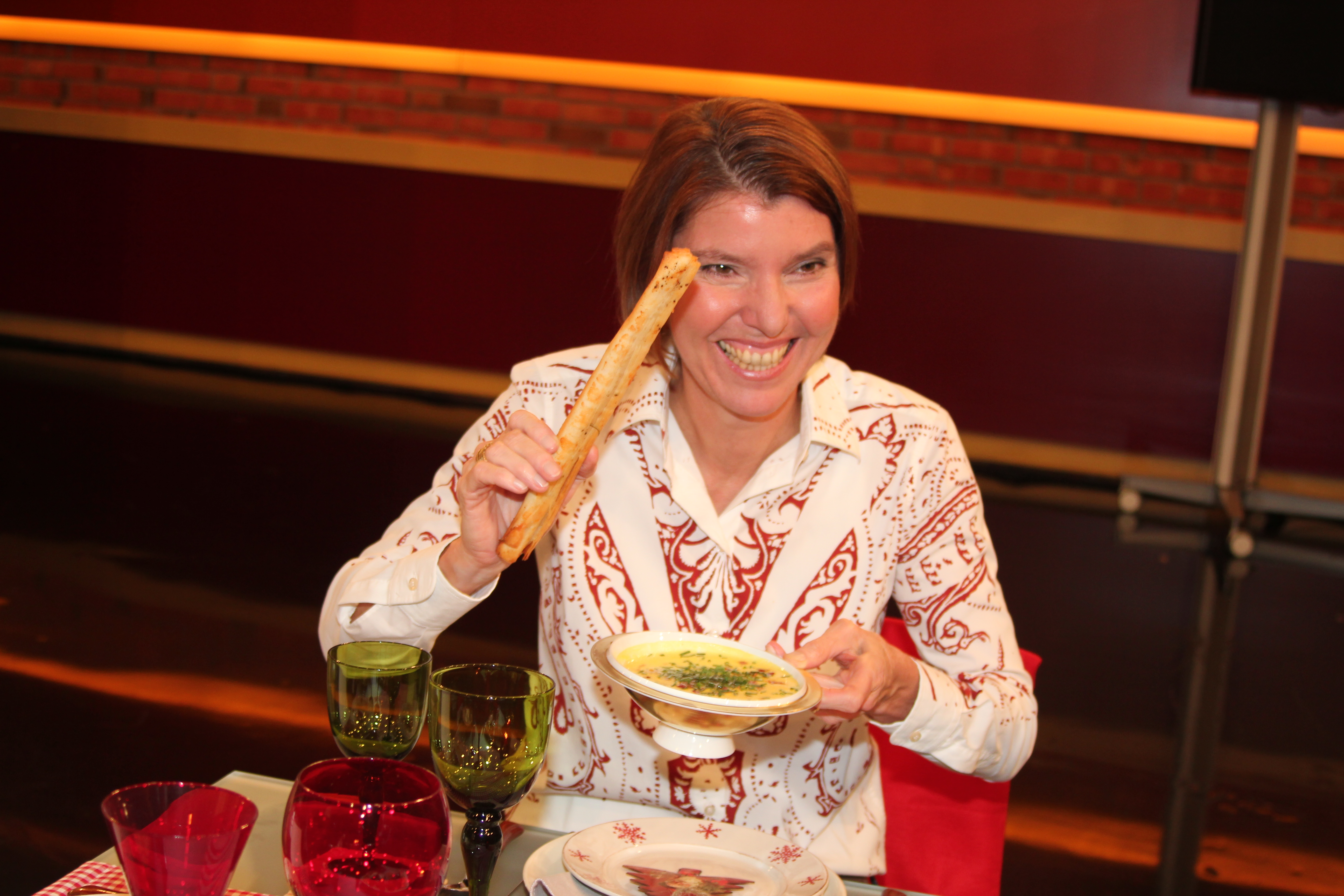 TV presenter Bettina Böttinger